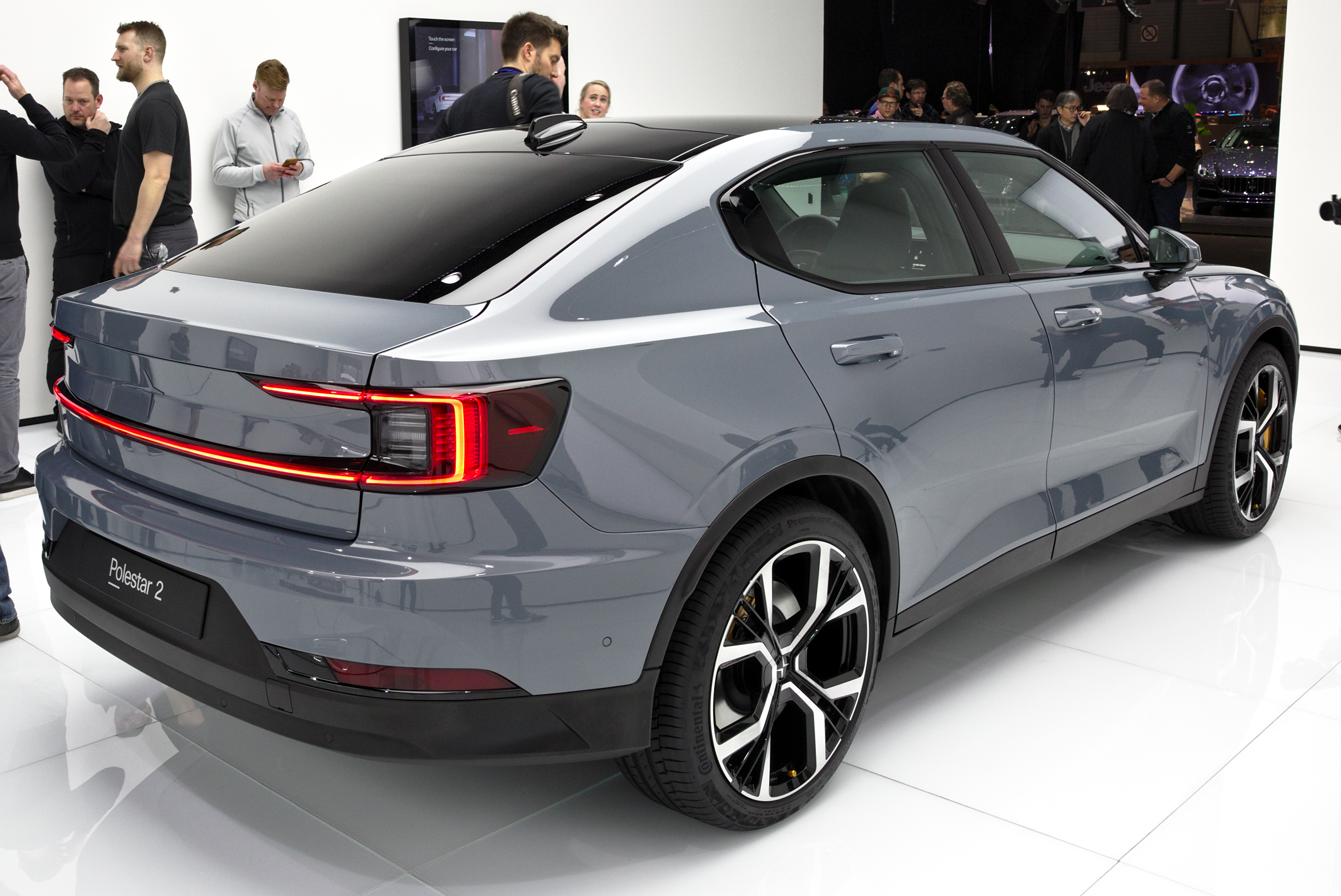 Polestar 2 at Geneva Motor Show 2019